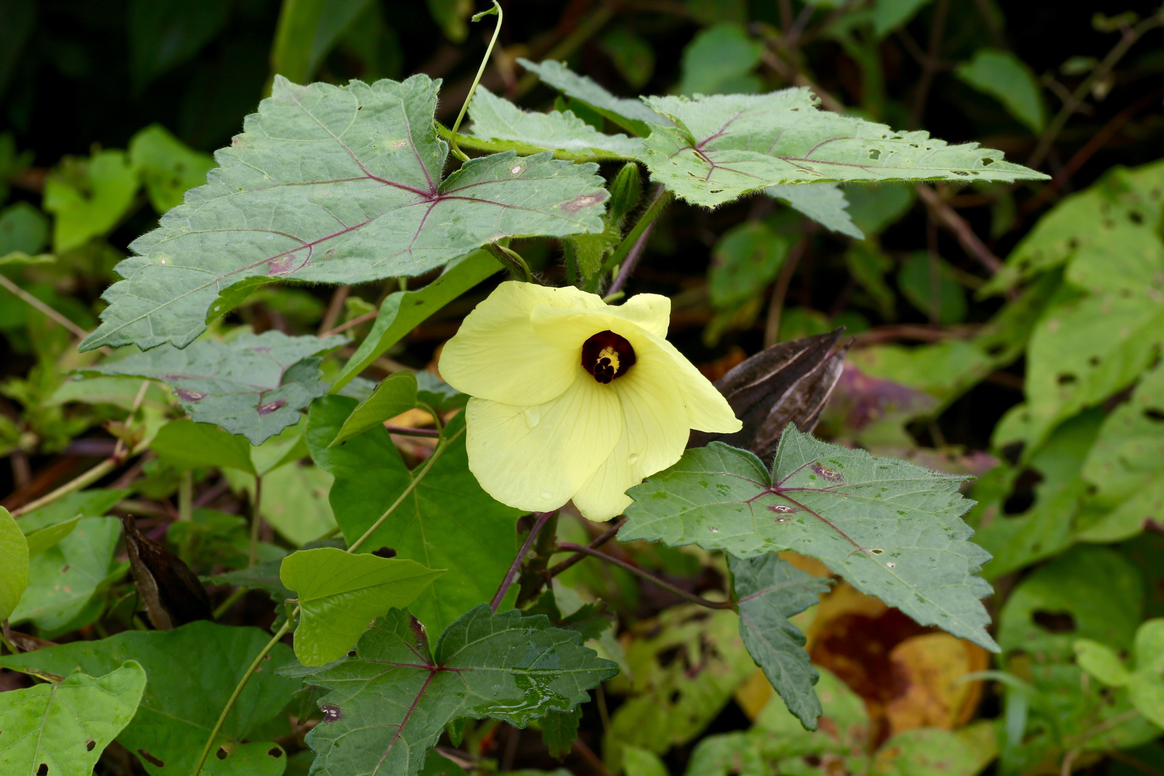 Ecuador, 2 km S of Puerto Misahualli, south of Rio Tena, along the road.